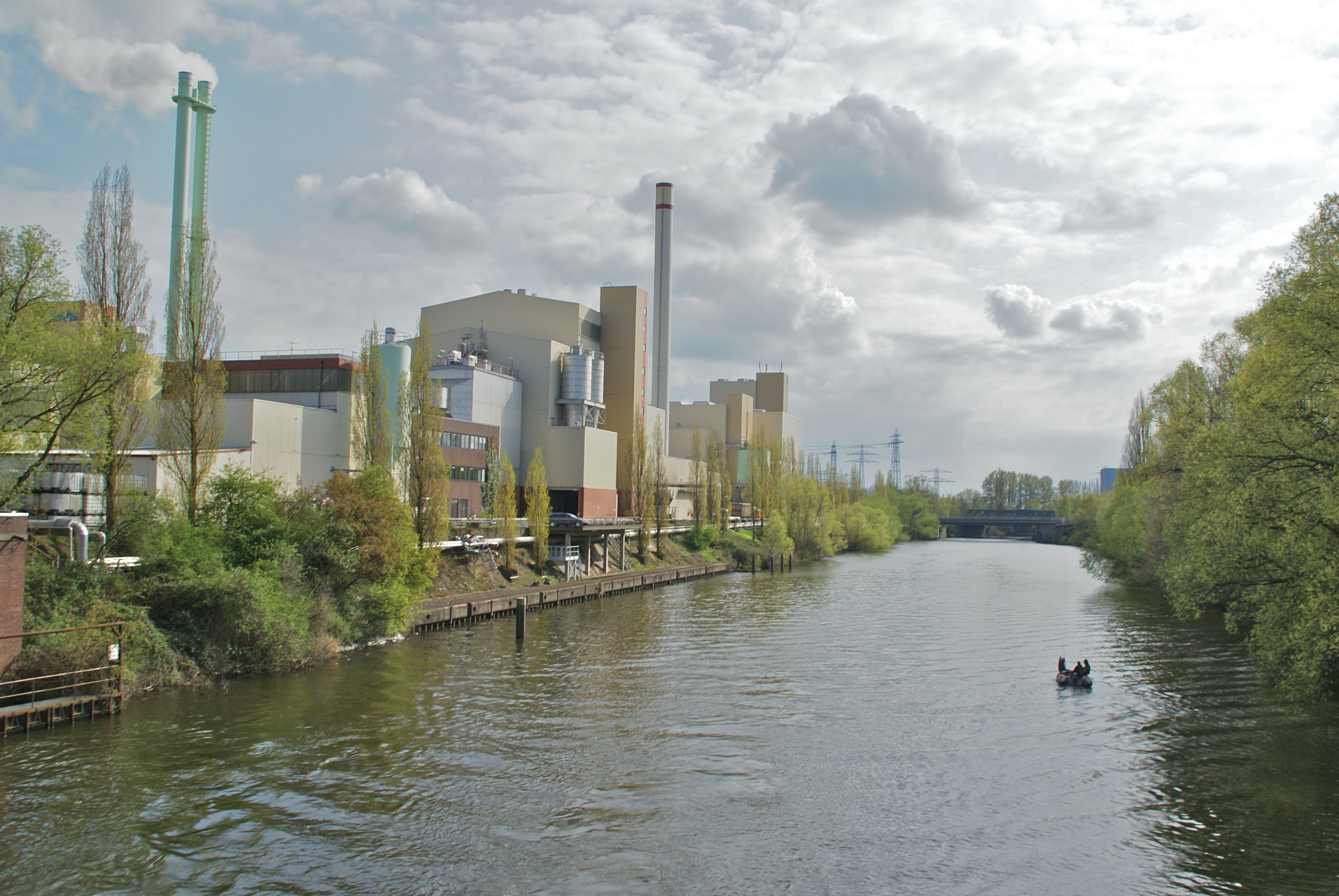 Hamburg (Rothenburgsort), Germany: The Tiefstackkanal from the bridge of the Borsigstreet